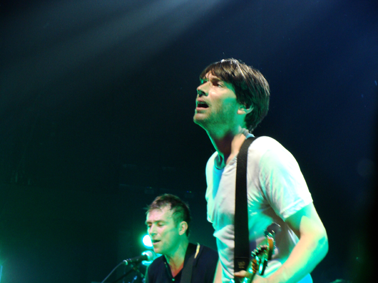 Damon Albarn and Alex James of Blur on stage at the Newcastle Academy, June 2009.